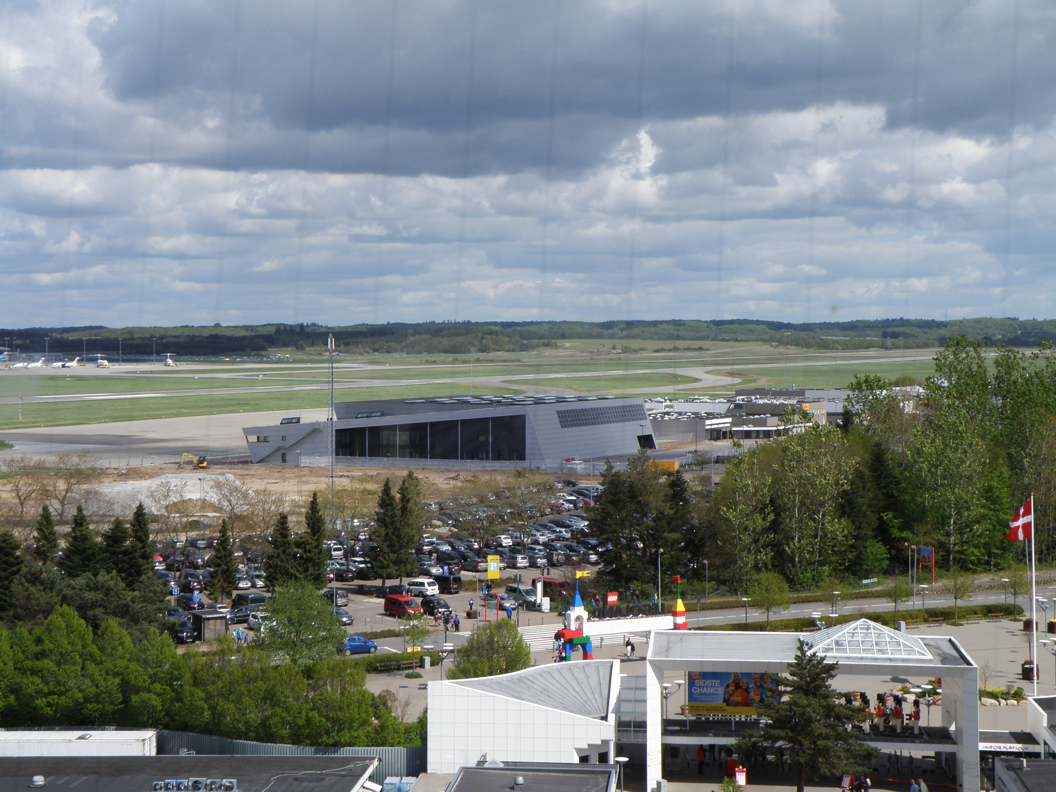 View from the Lego Top in the Legoland park in Billund, Denmark. This photo was taken in May 2012. This is the view towards the Billund Airport.